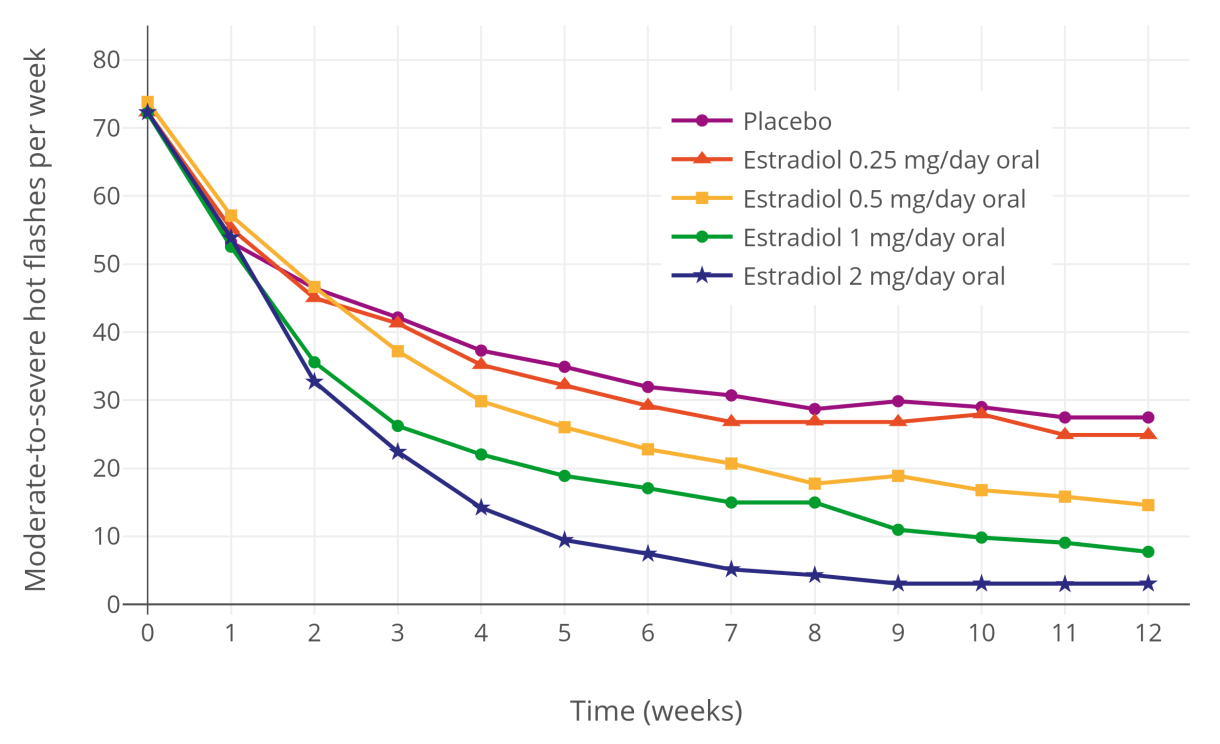 Mean number of moderate-to-severe hot flashes per week with placebo and different doses of oral estradiol in a randomized controlled trial of 333 menopausal women. Sources of the values: (May 2000). "Initial 17beta-estradiol dose for treating vasomotor symptoms". Obstet Gynecol 95 (5): 726–31. PMID 10775738. (2007). "Praxis der Hormontherapie in der Peri- und Postmenopause". Gynäkologische Endokrinologie 5 (3): 141–149. ISSN 1610-2894.